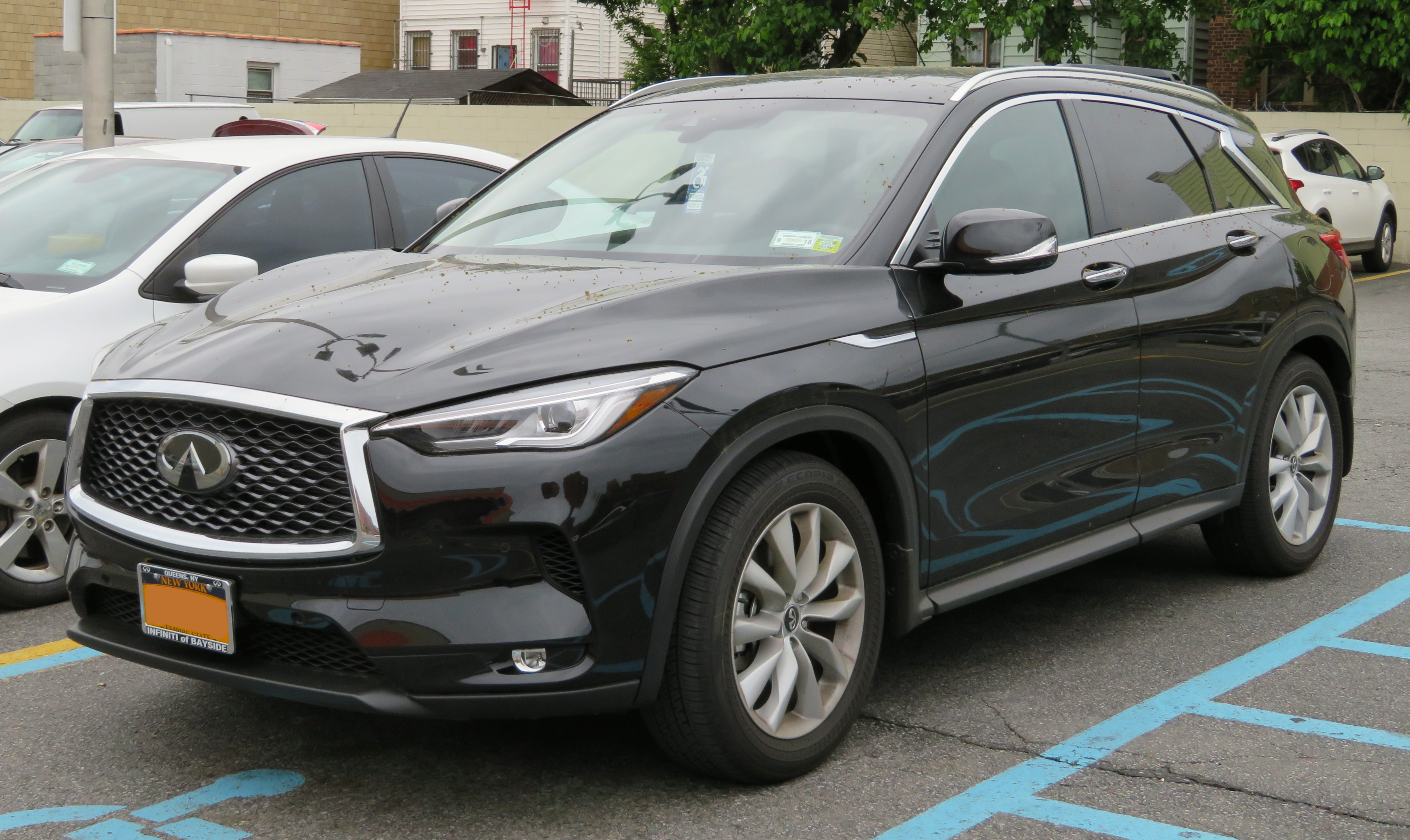 Spotted & photographed in Queens, New York